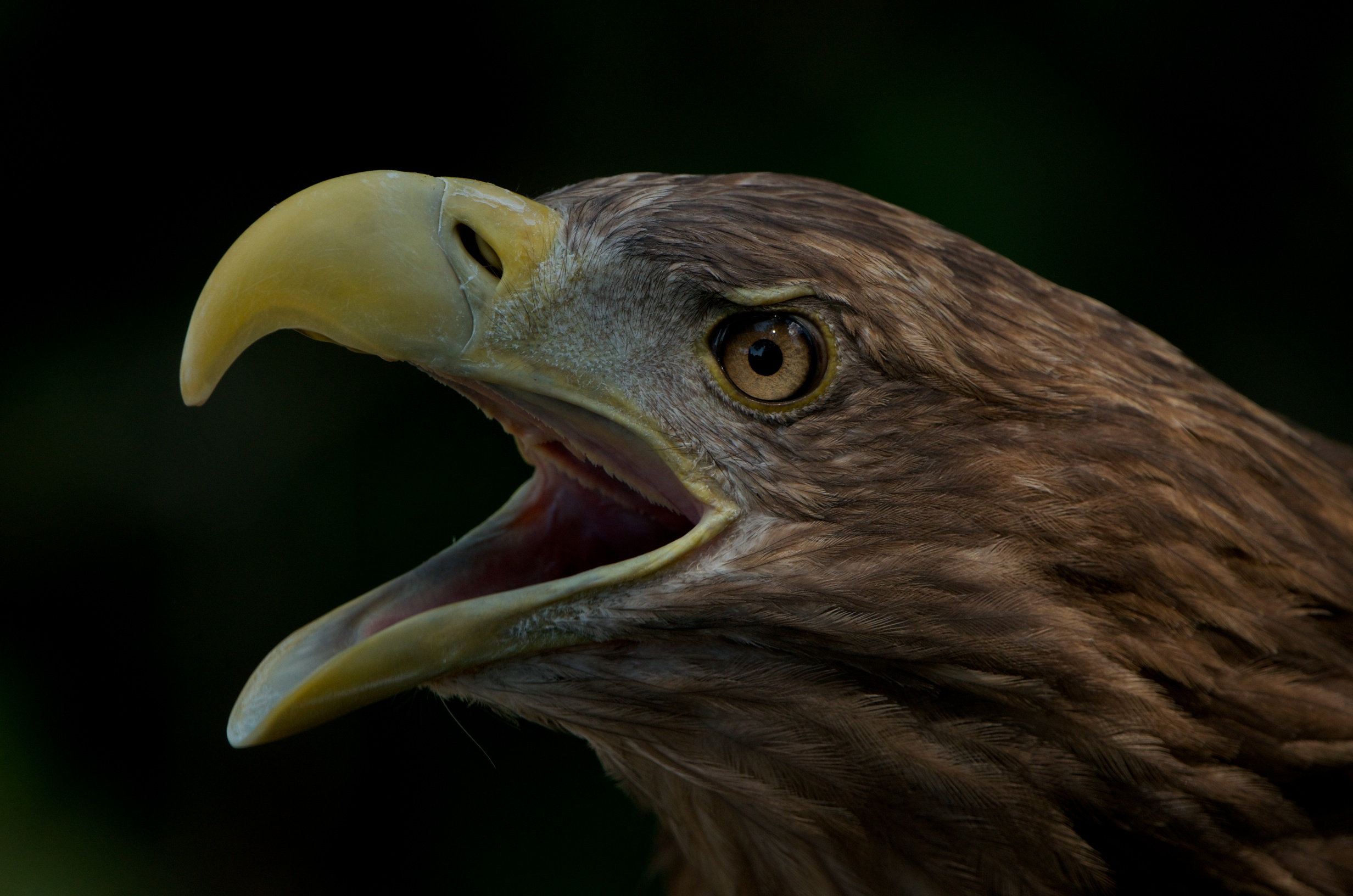 Closeup of White-tailed Eagle calling. Controlled Conditions.